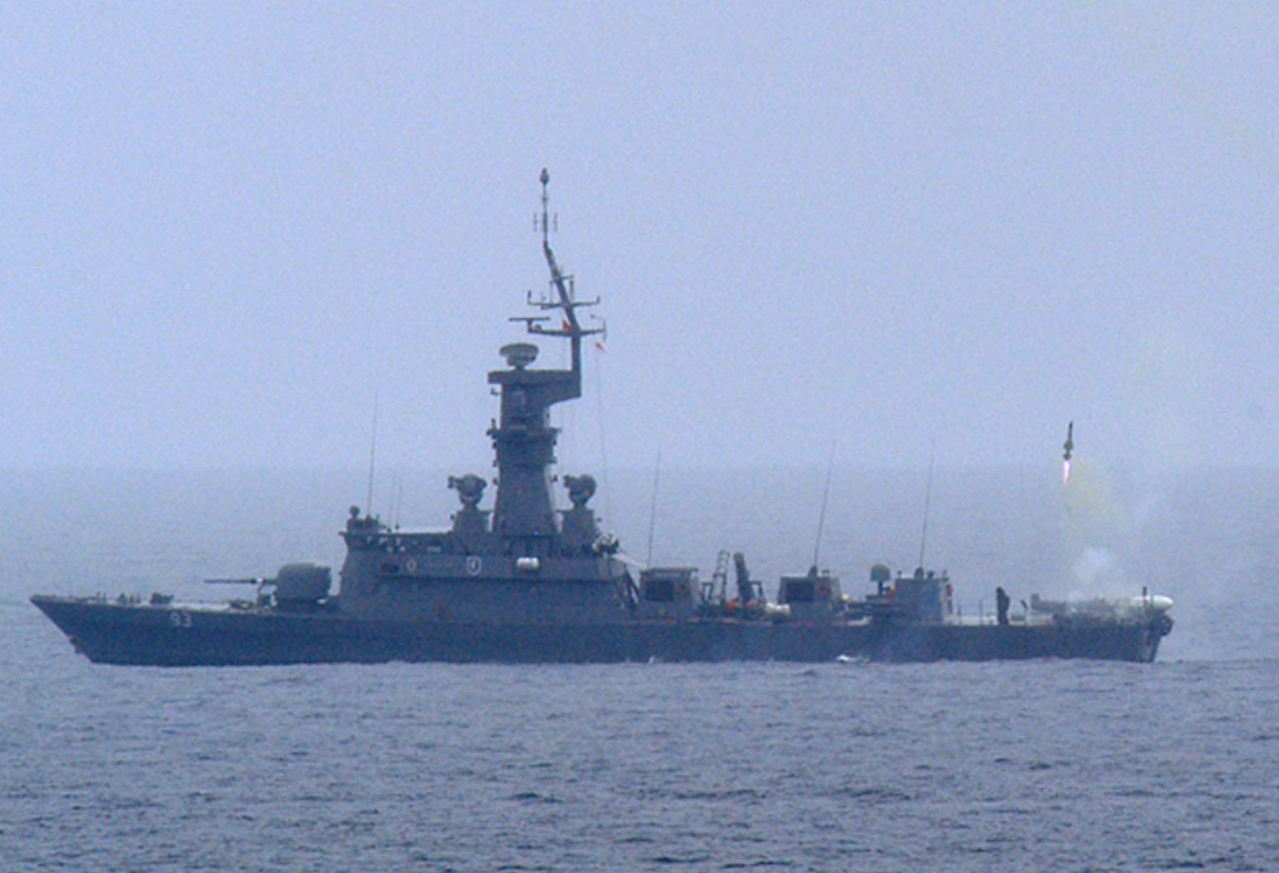 Image: 060608-N-9999A-001.jpg Description: The Republic of Singapore Navy missile corvette RSS Vengeance launches two Barak missiles during a missile exercise in support of the Singapore phase of Cooperation Afloat Readiness and Training (CARAT). The two missiles successfully shot down two U.S. Navy BQM-74E aerial drones, launched from the dock landing ship USS Tortuga (LSD 46). CARAT is an annual series of bilateral maritime training exercises between the United States and six Southeast Asia nations designed to build relationships and enhance the operational readiness of the participating forces. U.S. Navy photo (RELEASED)